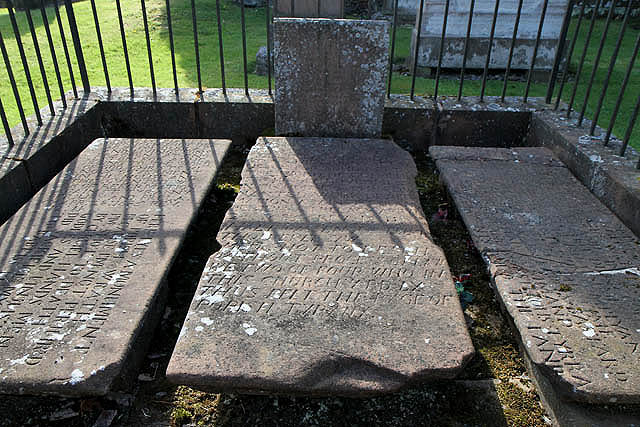 Covenanters gravestones at Glencairn Churchyard, Dumfriesshire. These gravestones within a railed enclosure are for four Covenanters, James Bennoch, Robert Edgar, John Gibson and Robert Mitchell. The four, along with Robert Grierson, were arrested by government soldiers and taken to Ingleston Mains Farm where after a short trial they were shot on 28th April 1685. Robert Grierson was buried at Balmaclellan. The best preserved inscription is on the slab on the left which reads:- HERE LYES JAMES BENNOCH SHOT DE AD BY COL. DOUGLAS AND LIVINGSTONS DRAGOONS AT ENG LSTON FOR ADHE REING TO THE WORD OF GOD CHRISTS KI NGLY GOVERMENT IN HIS HOUSE AND THE COVENTED WO RK OF REFORMATION AGAINST TYRANNY PERJURY AND PRELA CY APRIL 28 : 1685 REV. 12 : 11 HERE LYES A MONUMENT OF POPISH WRATH BECAUSE I’M NOT PERJURED I’M SHOT TO DEATH BY CRUEL HANDS OF MEN GODLESS AND UNJUST DID SACRIFICE MY BLOOD TO BABEISS LUST